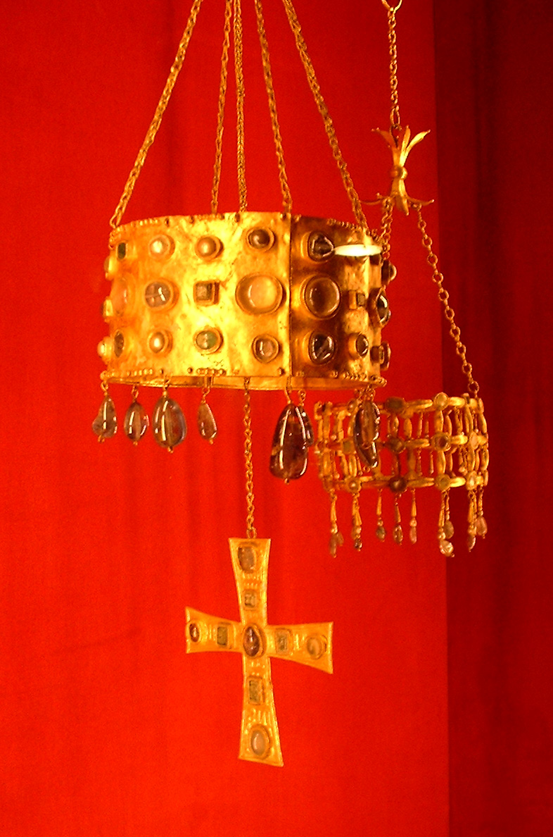 Votive crowns. On the left: gold and glass; on the right: gold, mother-of-pearl, amethysts, sapphires, emeralds and glass. Visigothic Spain, 7th century. From the Guarazzar Treasure, near Toledo, 1858.